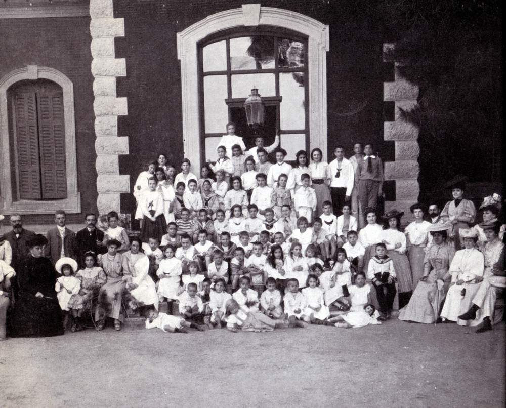 Pupils of the German School Athens, 1905